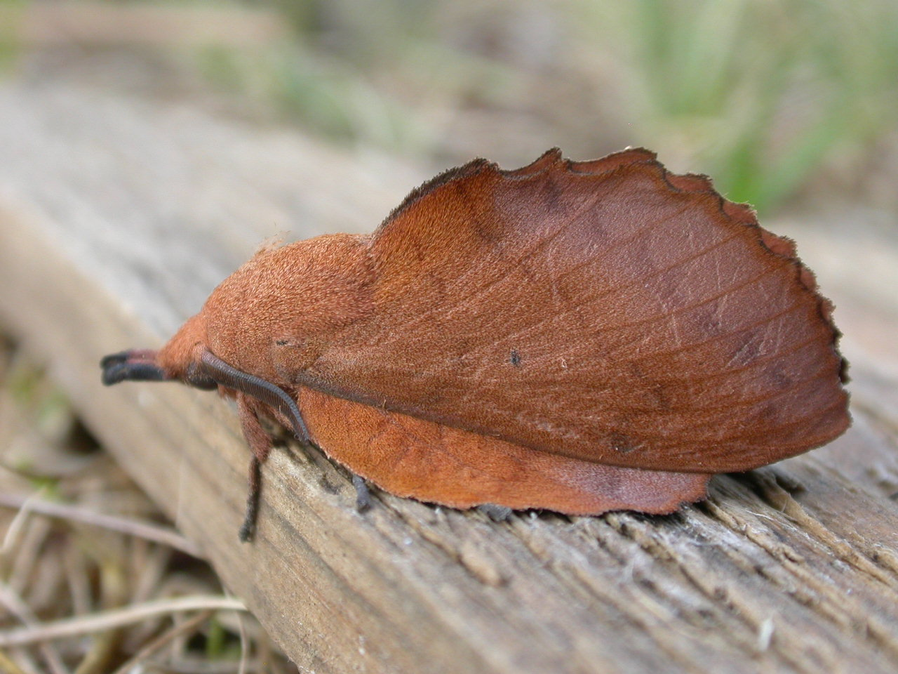 Gastropacha quercifolia